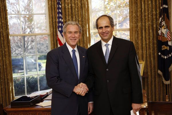 President George W. Bush meets with Ambassador Peter Burian of the Slovak Republic, Wednesday, Dec. 3, 2008 in the Oval Office at the White House, during the credentials ceremony for newly appointed ambassadors to Washington, D.C.